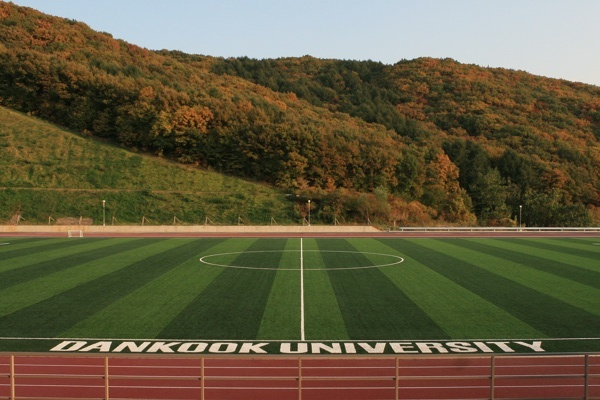 Sports grounds of Dankook university